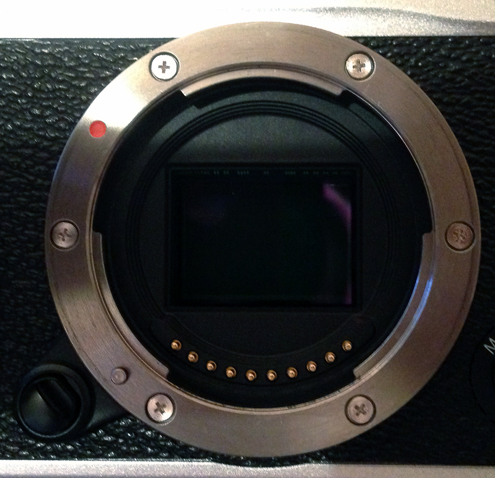 Fujifilm X-mount on X-E1 camera